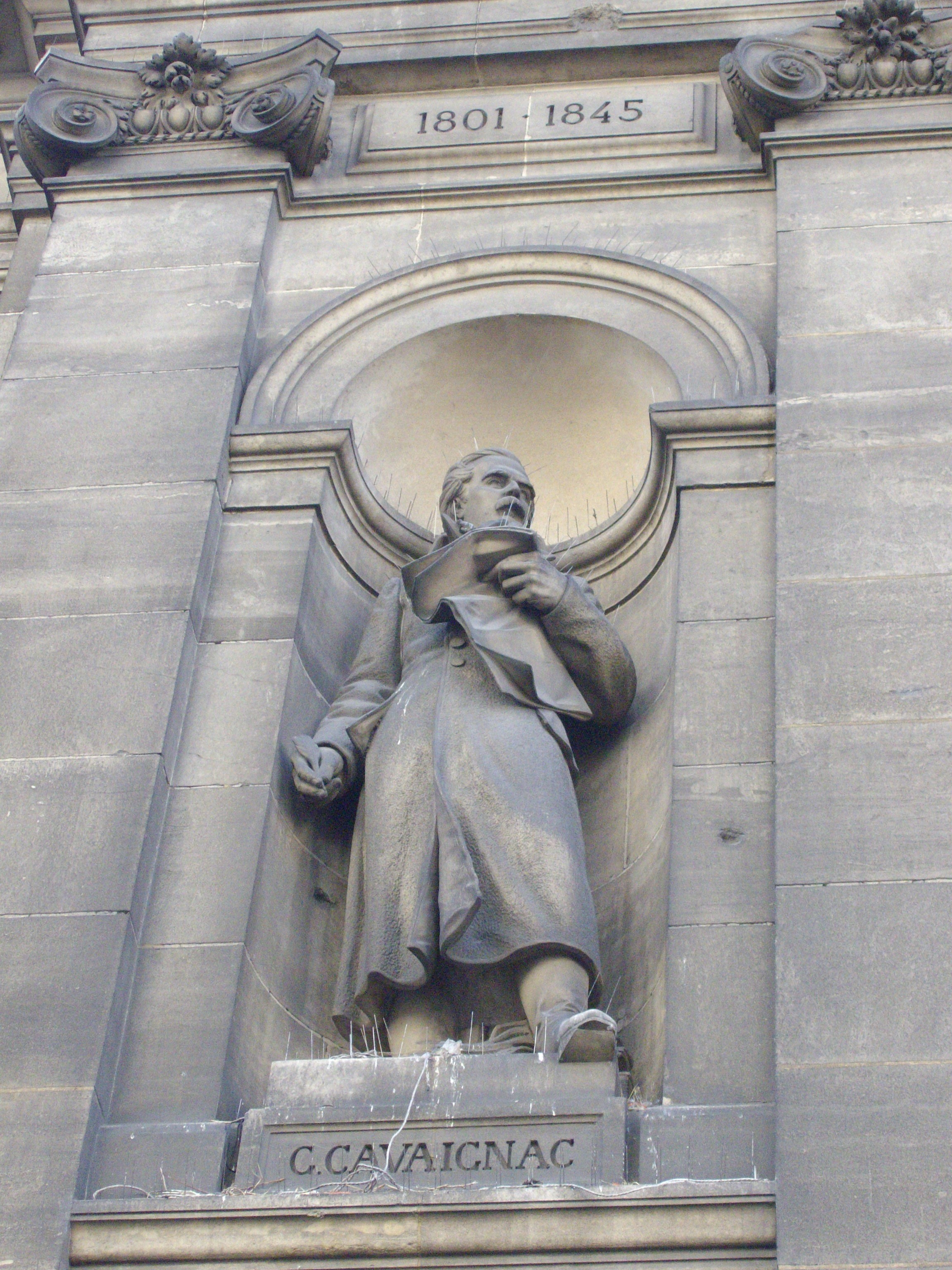 Statues of the City Hall in Paris, France